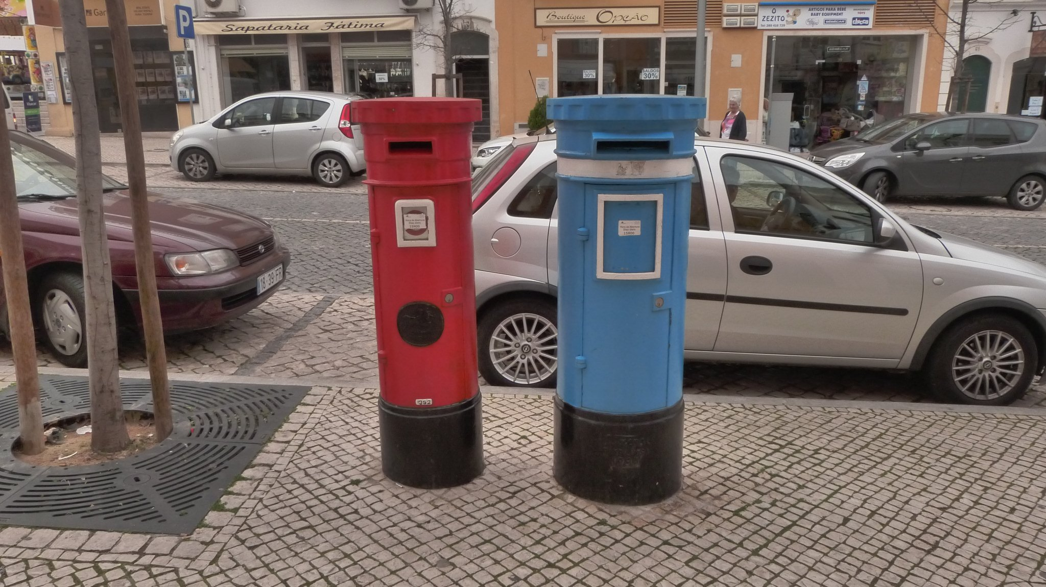 Post Boxes of Portugal bear a striking resemblance to those of the United Kingdom. In general they are slimmer and there is a blue fatter version for first class mail. Correios normal (red) and Correios Azul (Blue)